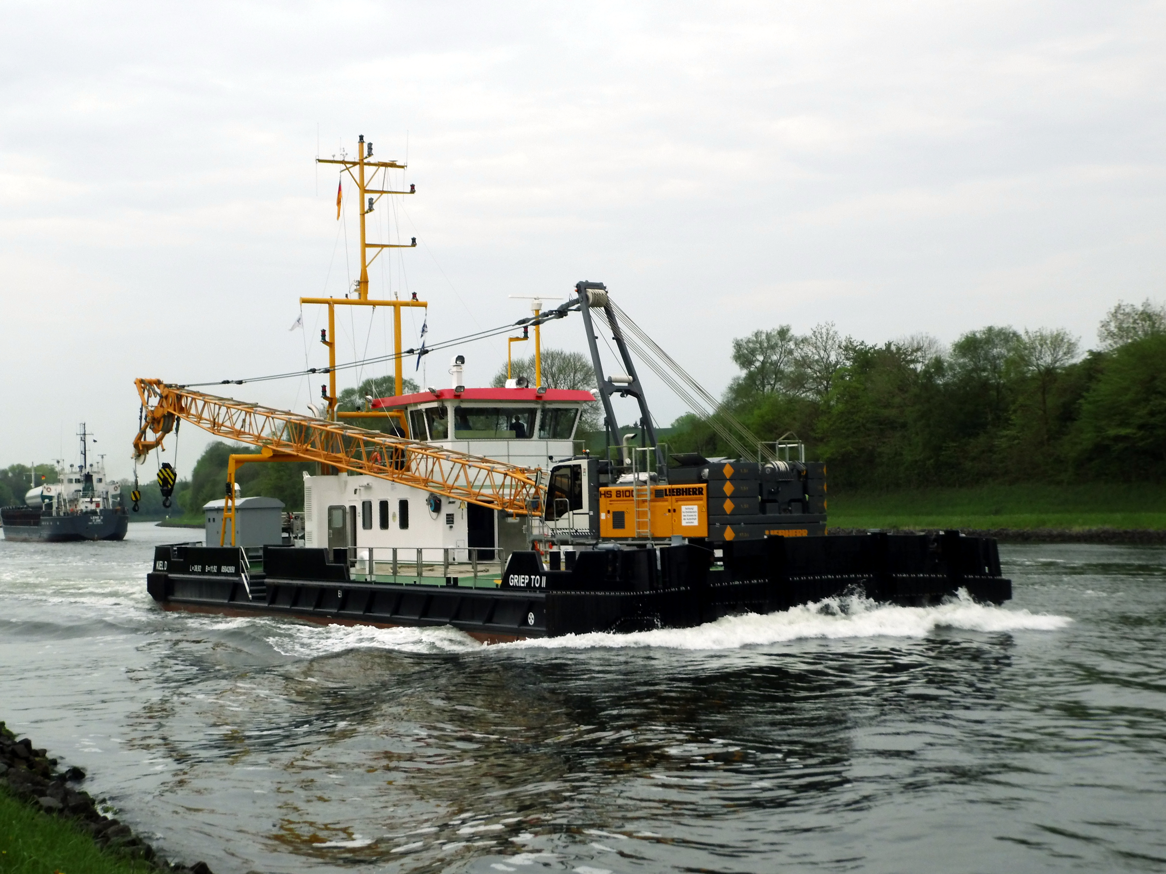 Griep To II in Kiel Canal.